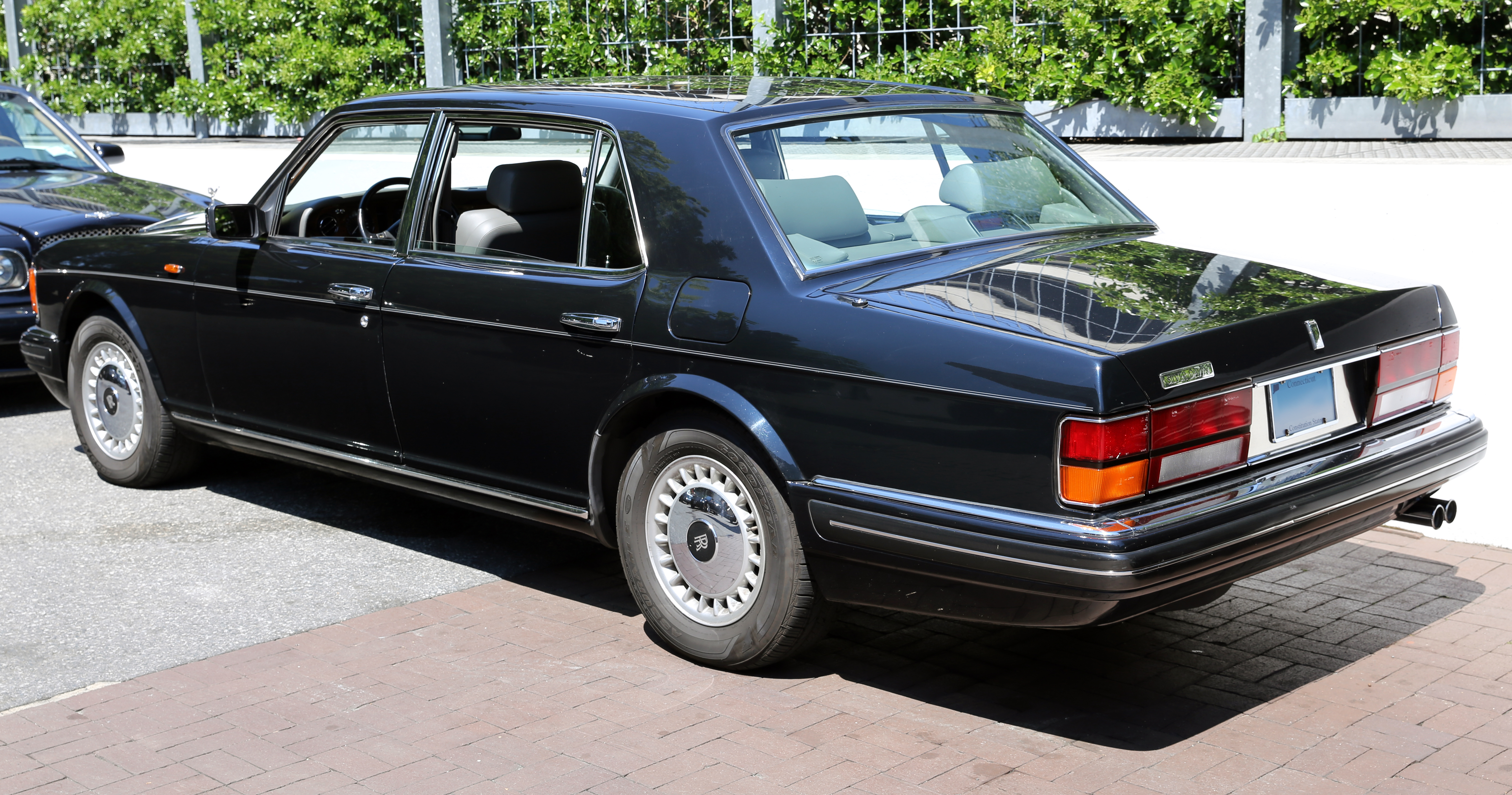 Rear of a mid-nineties Rolls-Royce Silver Dawn (sometimes referred to as the Silver Dawn II to set it apart from the thirties' car with the same name). This is a long-wheelbase version of the Silver Spirit, but modernized and with a lower grille.